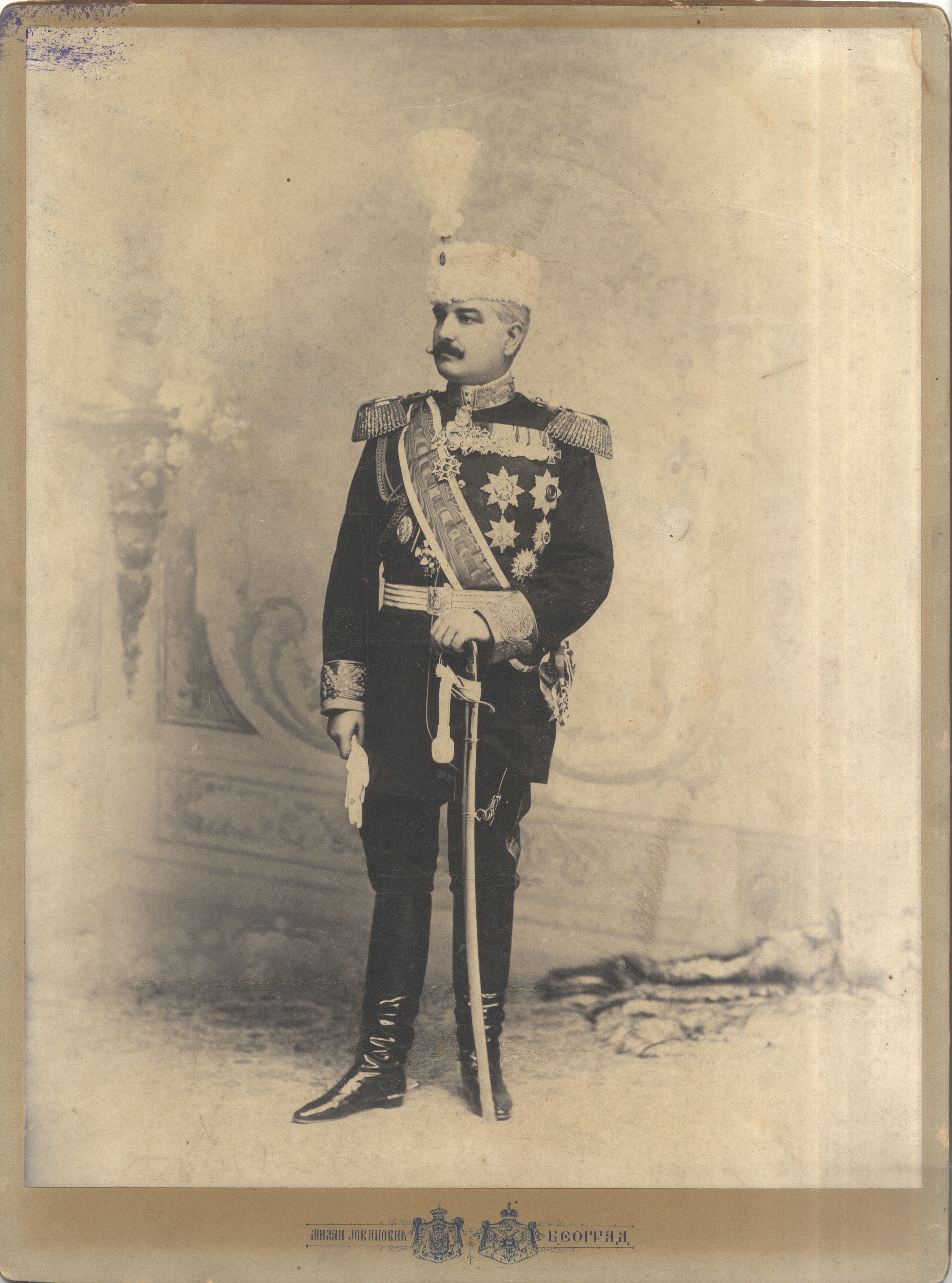 General Lazar Petrović